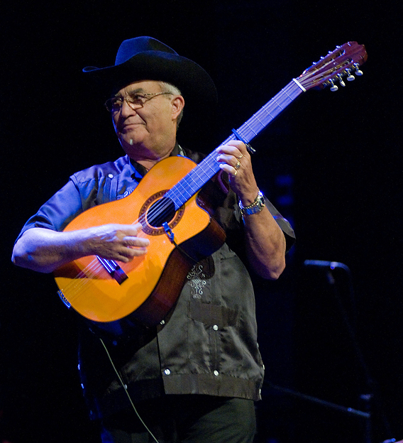 Crónica del concierto en